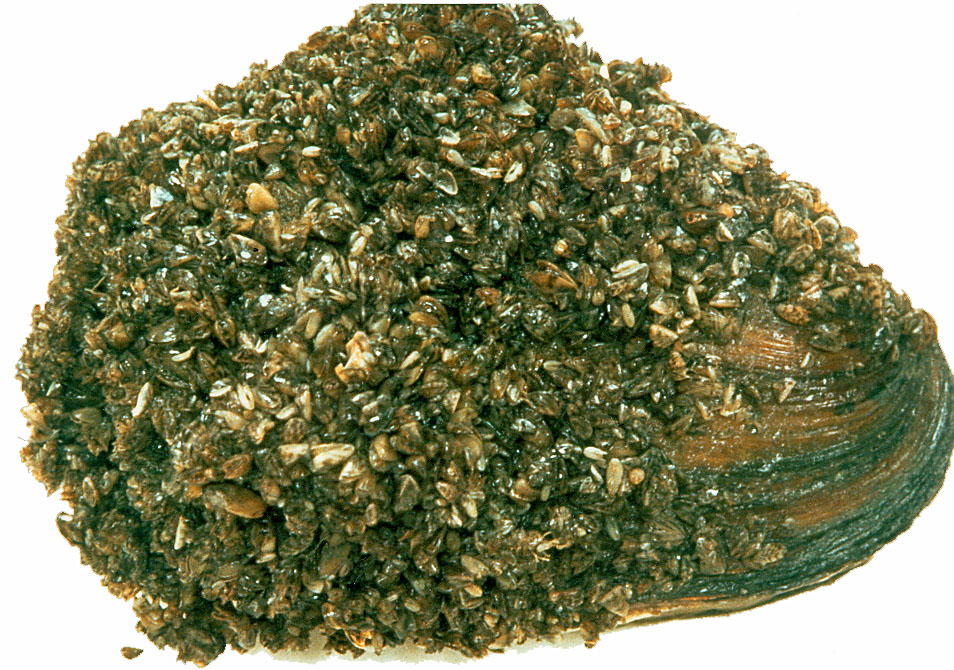 Native Great Lakes unionid mussel encrusted with zebra mussels. GLERL, 1996.